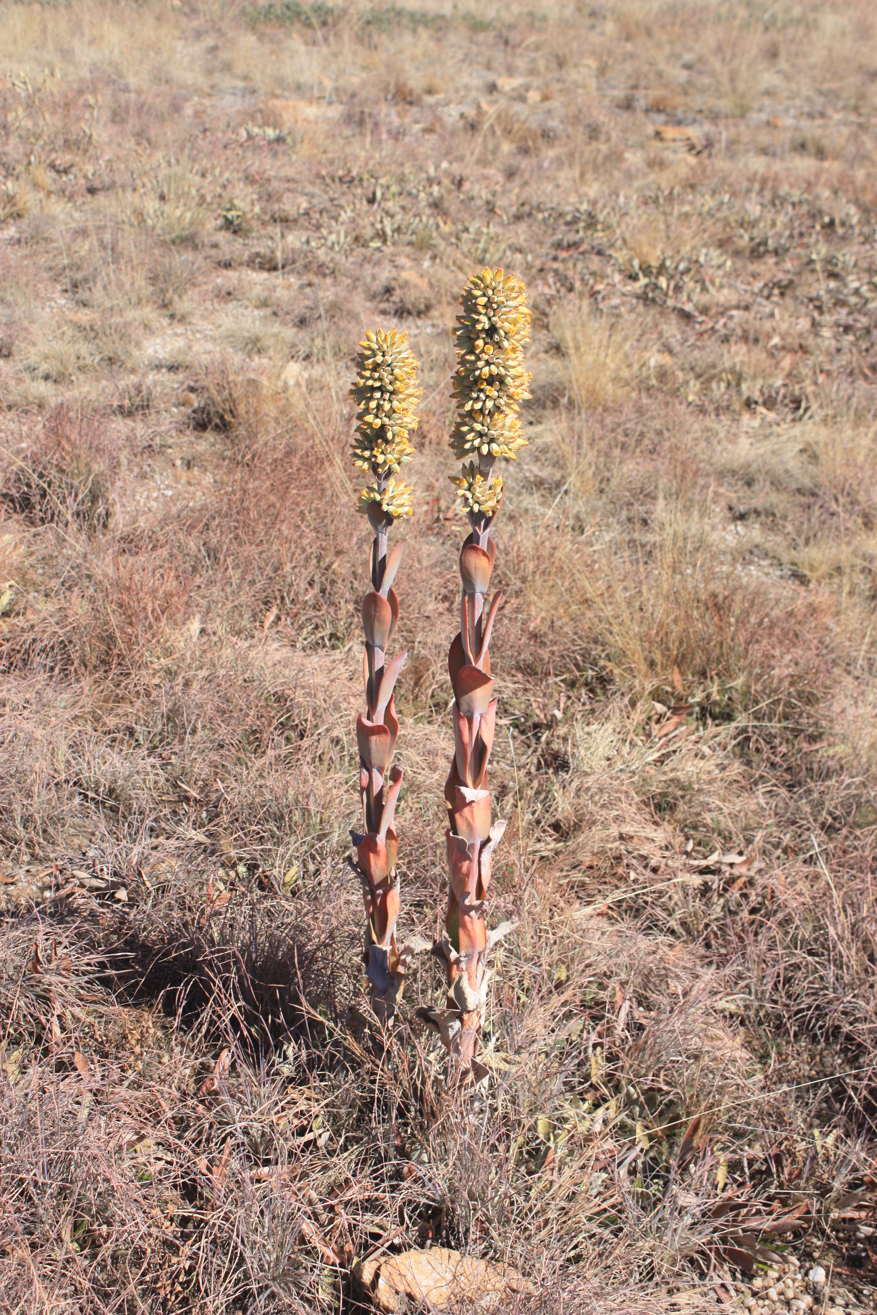 Kalanchoe thyrsiflora, Kgaswane Mountain Reserve, Magaliesberg, South Africa